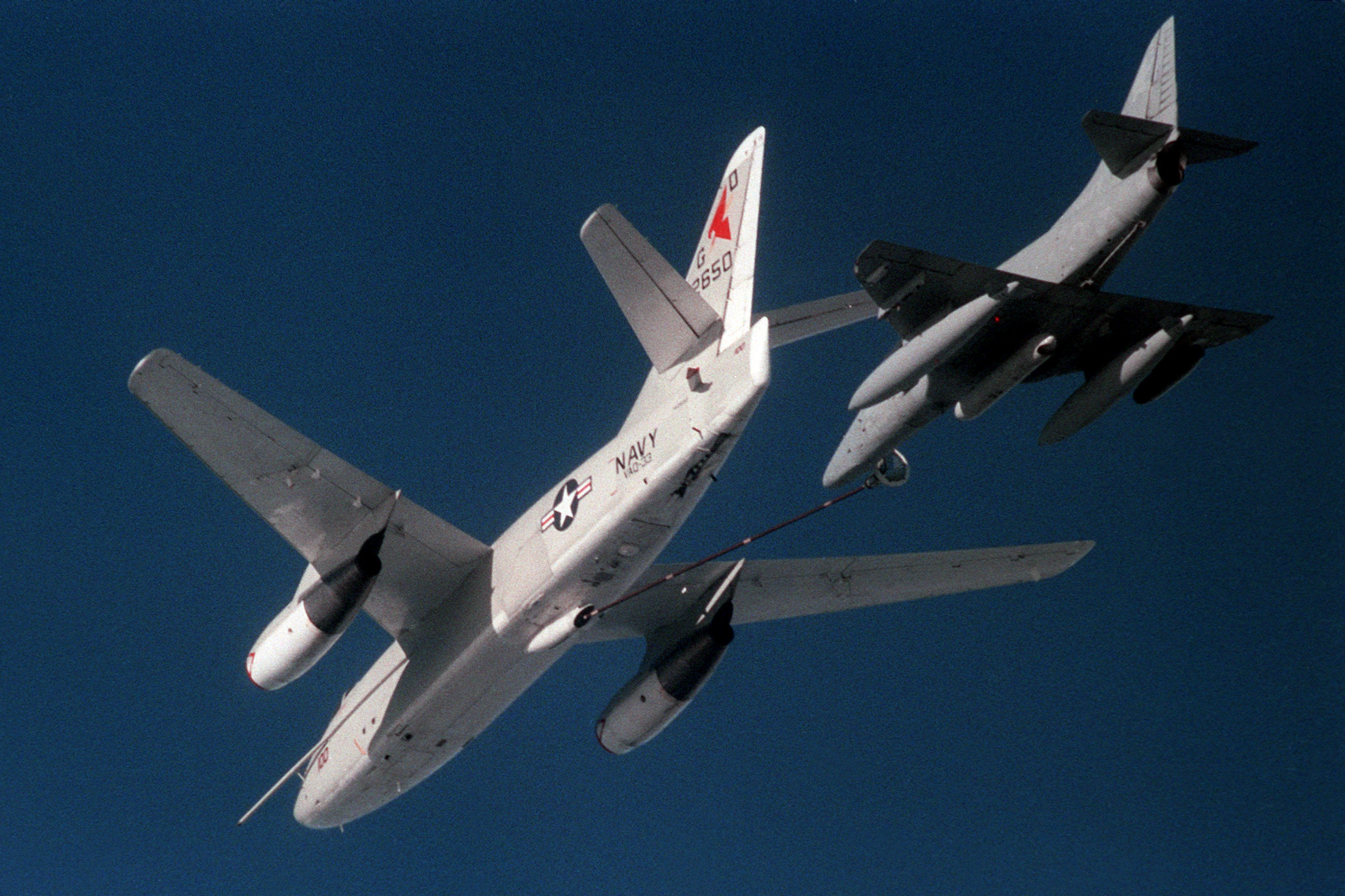 A U.S. Navy Douglas EA-3B Skywarrior aircraft (BuNo 142650) of Tactical Electronic Warfare Squadron VAQ-33 refueling a Douglal TA-4J Skyhawk aircraft of Composite Squadron VC-12, in 1980.